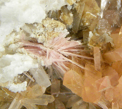 Eosphorite, Väyrynenite Locality: Chamachhu, Haramosh Mts., Skardu District, Baltistan, Northern Areas, Pakistan (Locality at ) Size: 4.1 x 2.7 x 2.6 cm. This is certainly one of the finest small miniatures from this very isolated yet exciting discovery. It is an awesome association specimen. It features a dramatic crystallized burst of tan to orange color Eosphorite crystals measuring up to 1.5 cm long which are associated with a few bright pink sprays of acicular Väyrynenite (approximately 6 mm across) which are associated with green, blue and black Tourmaline, and a small spherical somewhat rosette-shaped aggregate of an unknown brown mineral (possibly a phosphate?) on white Albite matrix. The piece is valued at $1400 retail. A superb and aesthetic miniature size specimen featuring a rare association of species. Ex. Brian Kosnar Collection.